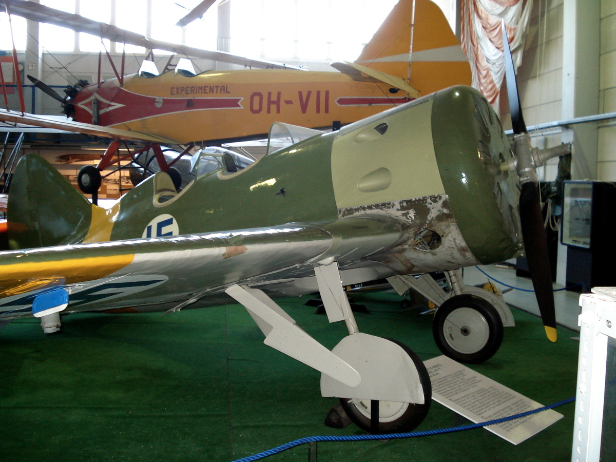 Polikarpov UTI-4, two seater training version of I-16 Soviet fighter. Displayed in Helsinki Aviation Museum, with Finnish markings. Photo taken on July 17, 2006. Source: Photo by me, User:Balcer.